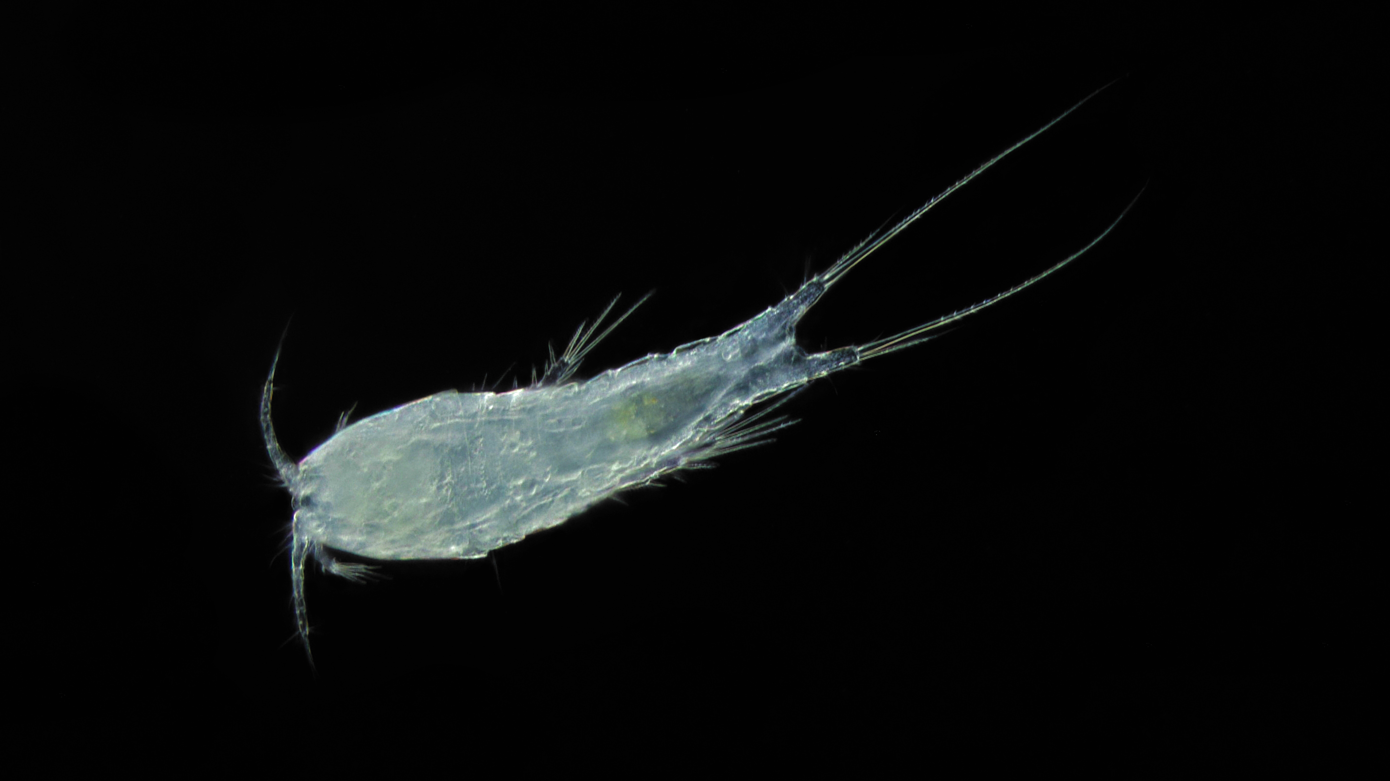 immature female Canthocamptus glacialis from Lena delta.